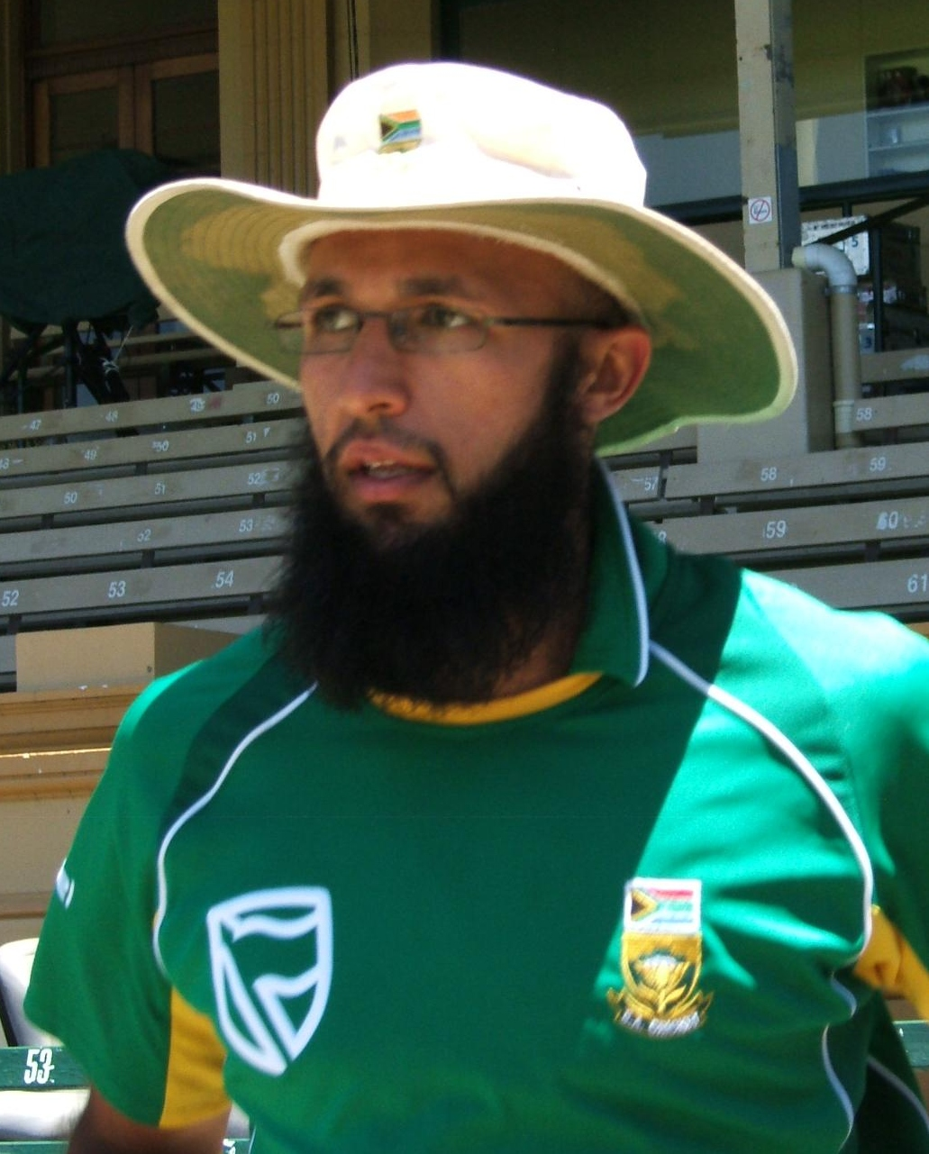 Hashim Amla at a training session at the Adelaide Oval